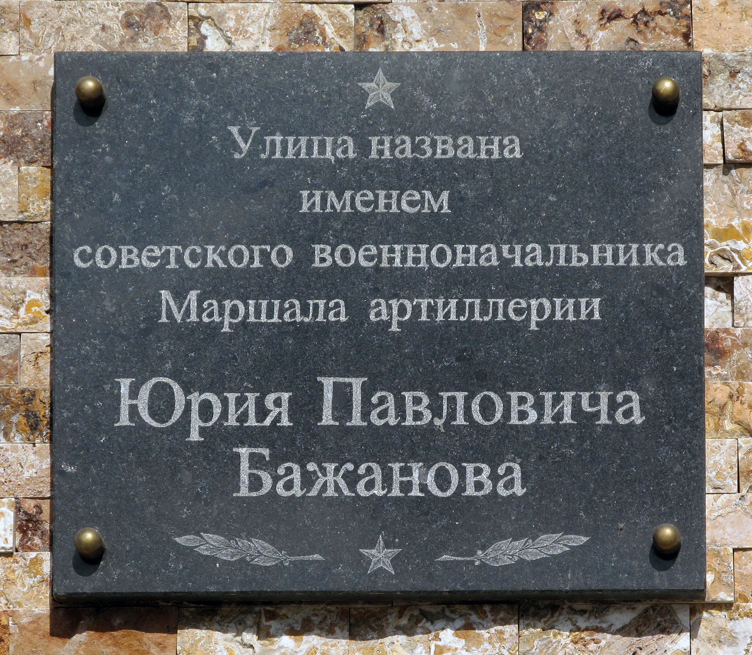 Annotative Plaque for Marshala Bazhanova Street (Pushkinska Str. 42. Kharkiv, Ukraine)